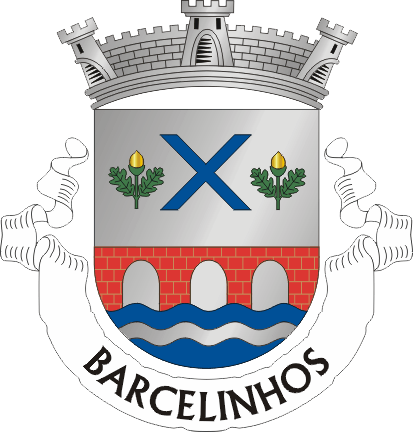 Crest of Barcelinhos, a parish in the municipality of Barcelos (Portugal)